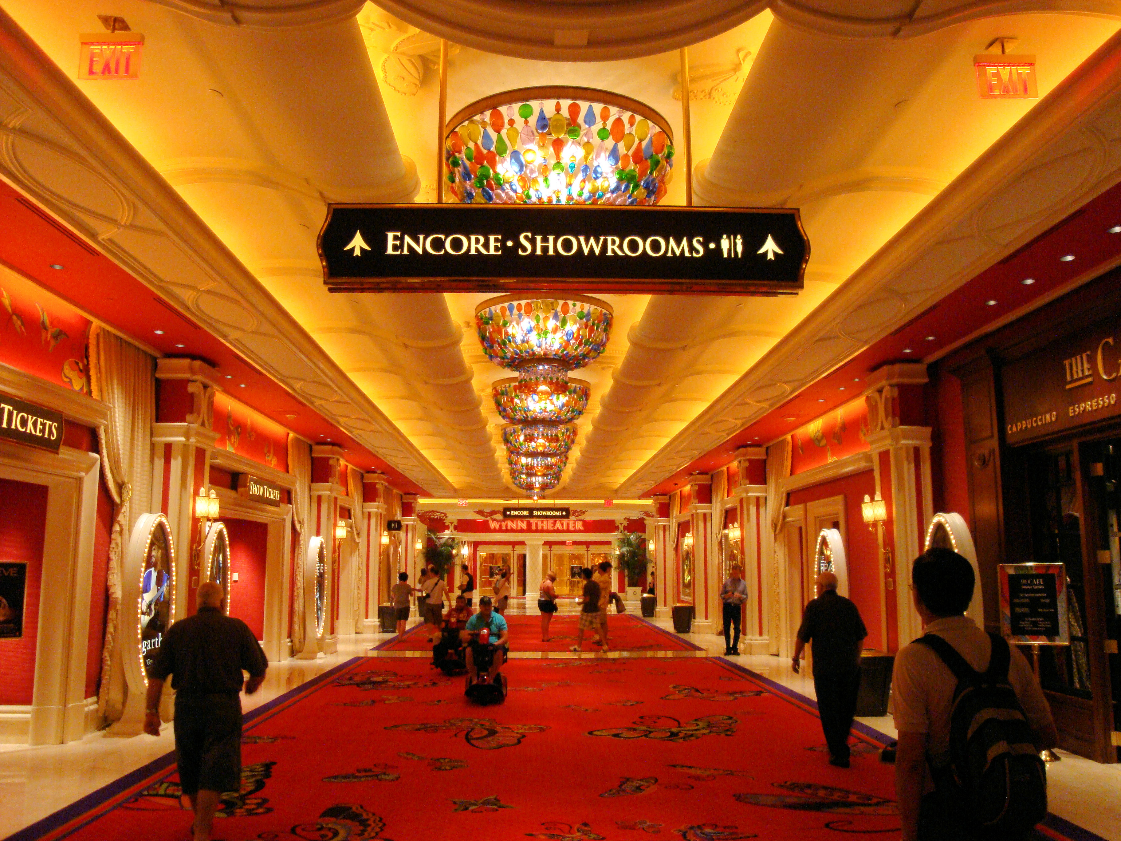 The Wynn Las Vegas Hotel and Casino.